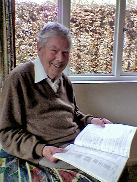 Photograph of Hugh McGregor Ross in his home in Painswick, Gloucestershire, England. He is holding a copy of the 1987 Draft Proposal for ISO/IEC 10646 for which he was editor. I took this photograph myself on 2006-01-18. Michael Everson